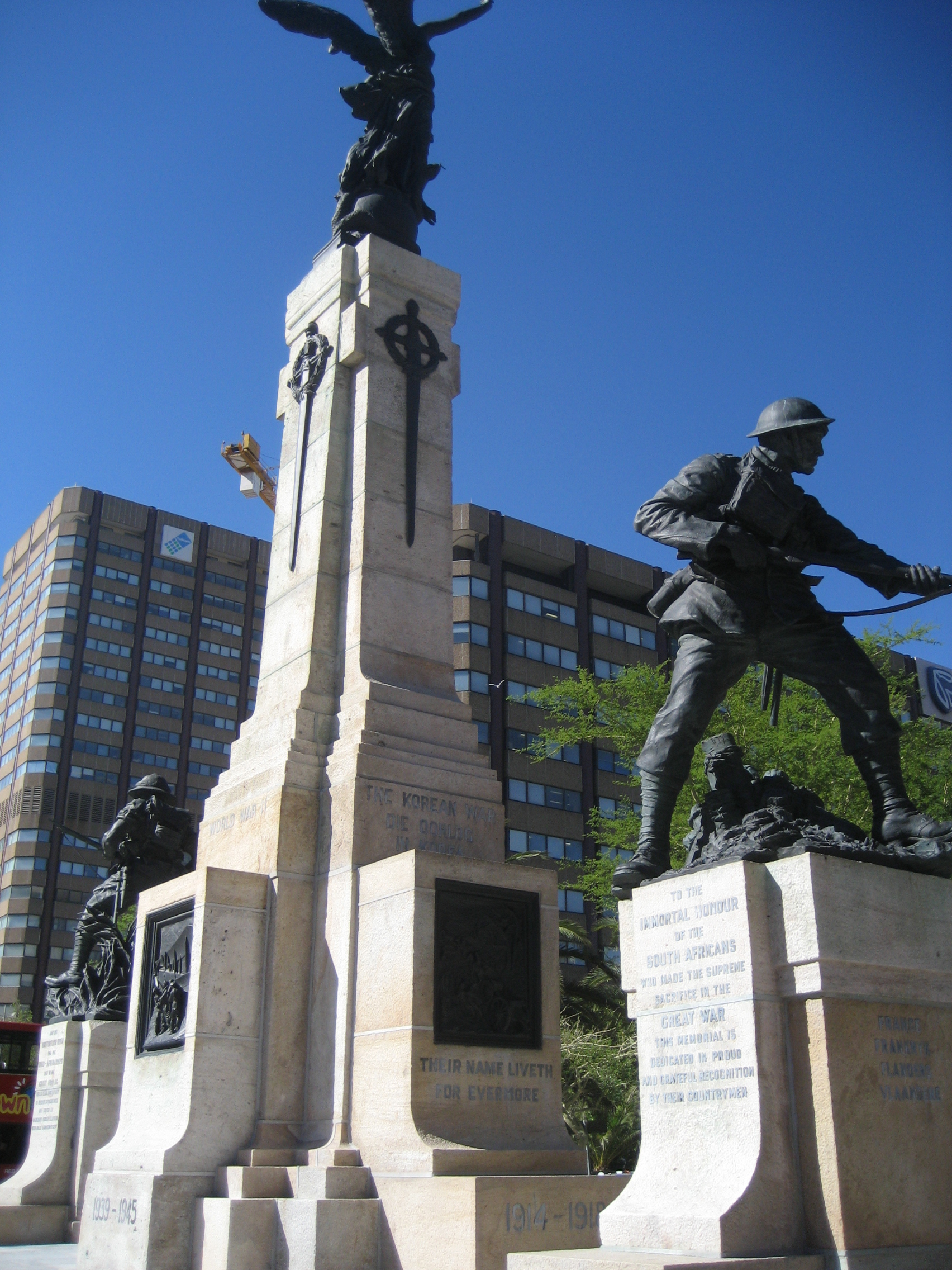 War memorial, Cape Town (South Africa). Unveiled 3 August 1924 and again 8 Nov. 1959 (WWII & Korean War added. Four base reliefs depict a scene of Denville Wood. Sculptor: Vernon March